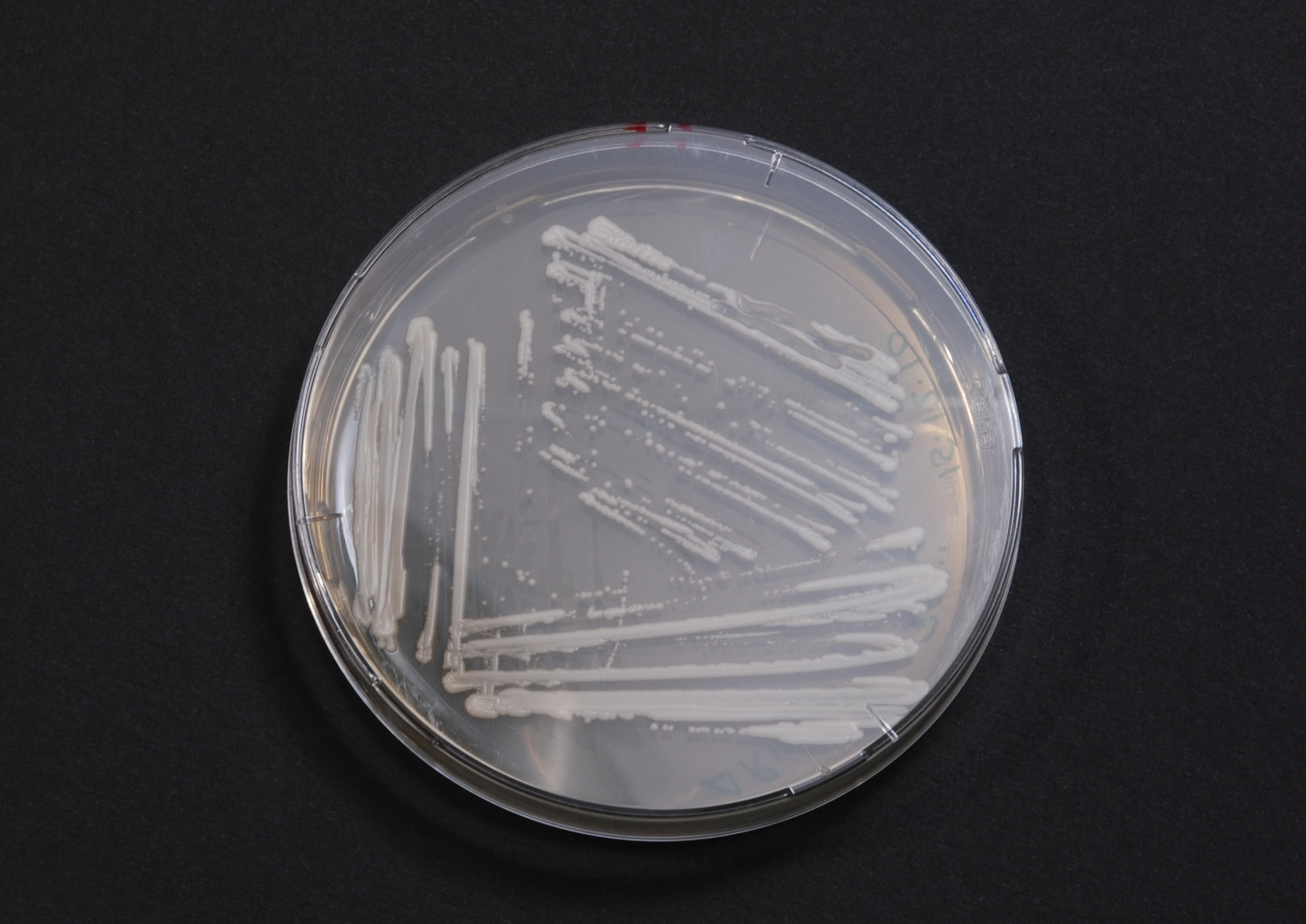 Agar plates with yeast colonies